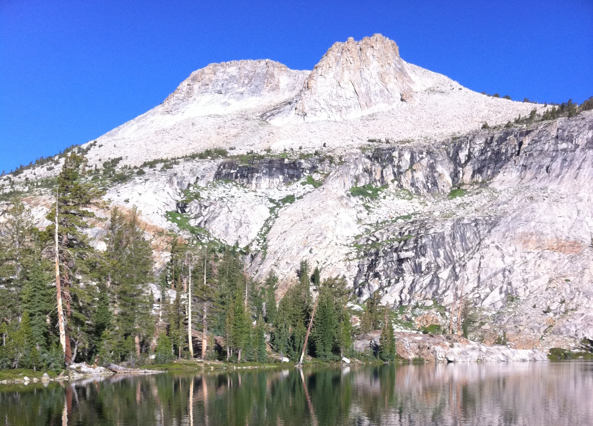 Mount Hoffmann reflected in May Lake, Yosemite National Park (cropped)